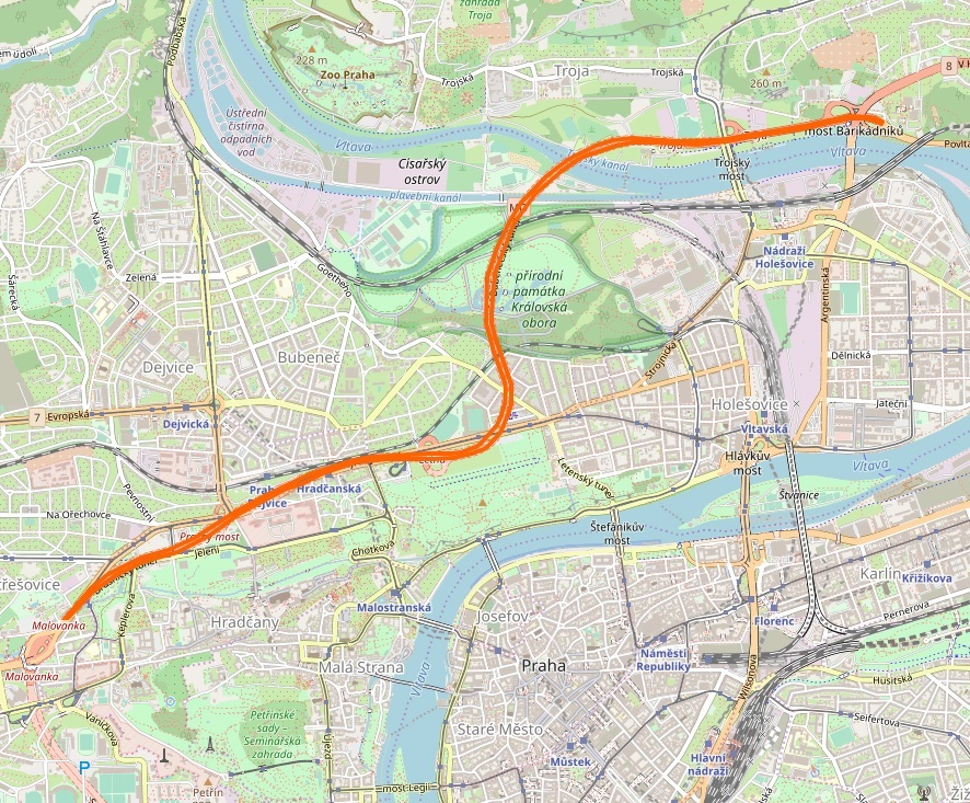 Blanka tunnel map. This map may be incomplete, and may contain errors. Don't rely solely on it for navigation.